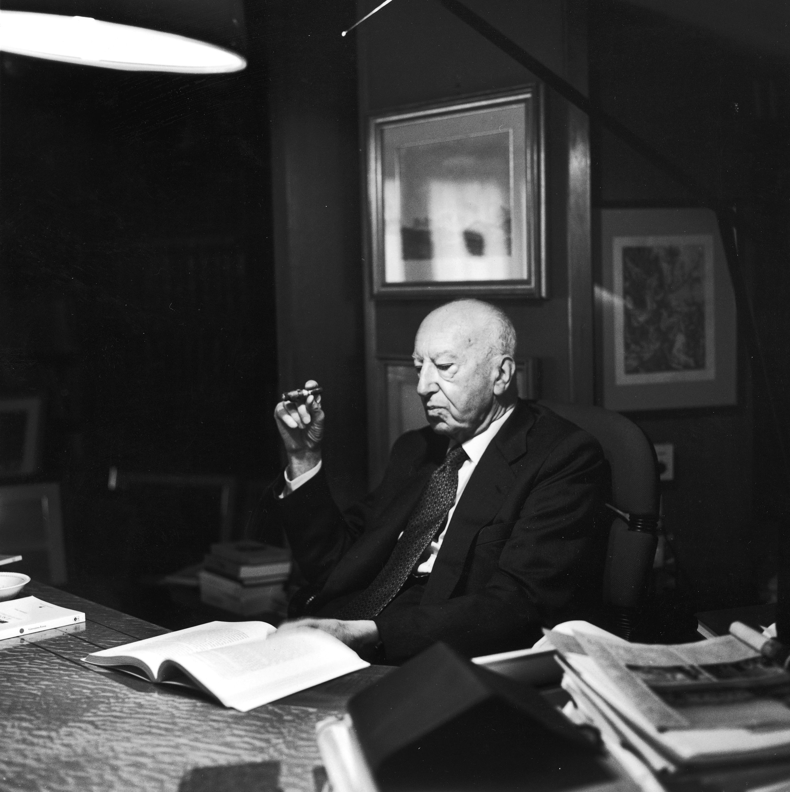 Feliciano Benvenuti (1916-1999), Italian jurist. He was president of Venice's Institute of Science, Literature and Arts